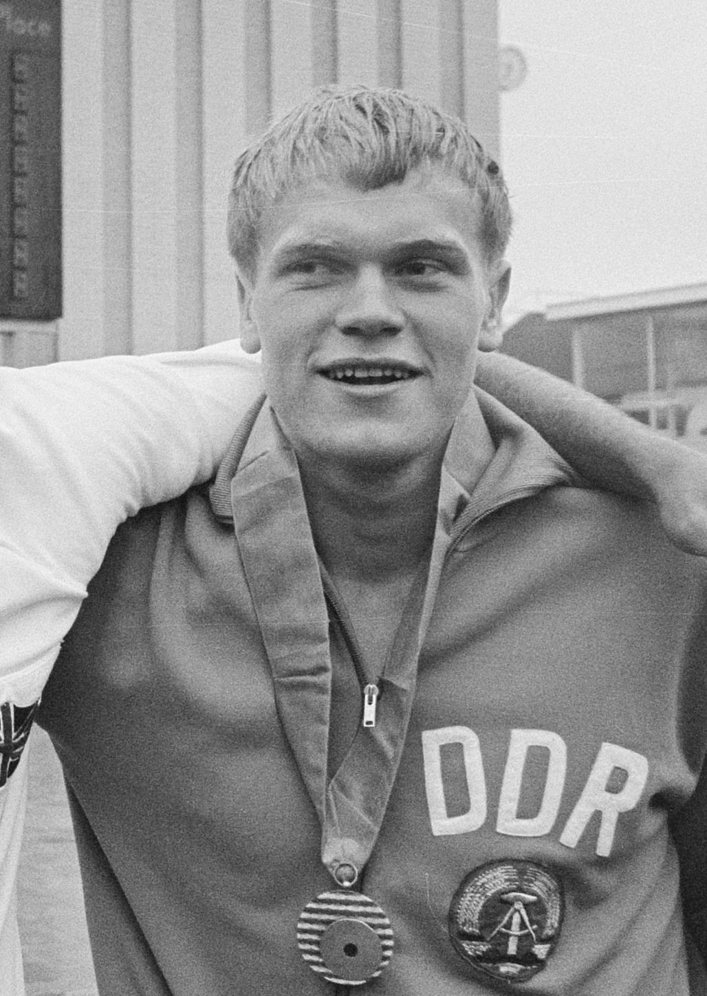 Udo Poser